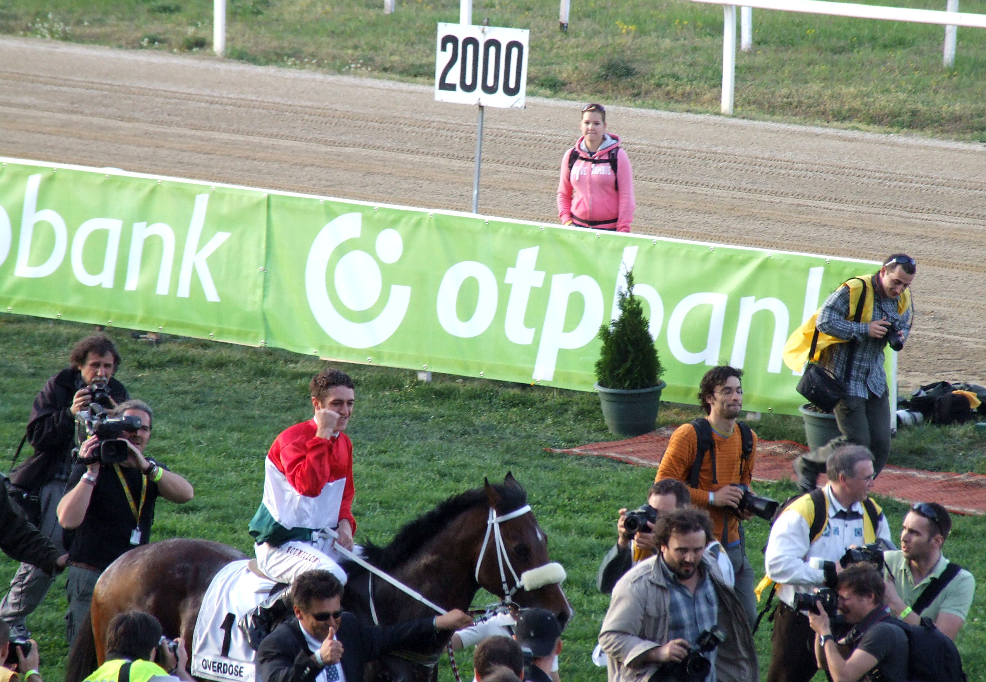 Overdose after the twelfth win.